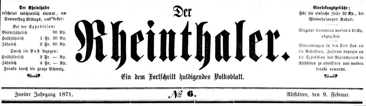 Image of an issue of the local newspaper "Der Rheintaler" from 1871.